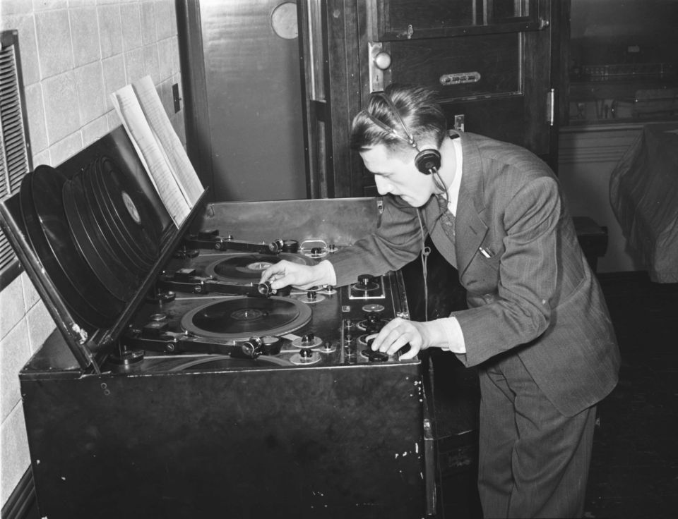 The technician at the music programming from CBC (Radio-Canada) station in Montreal, spinning an LP on one of the turntables sound studio.